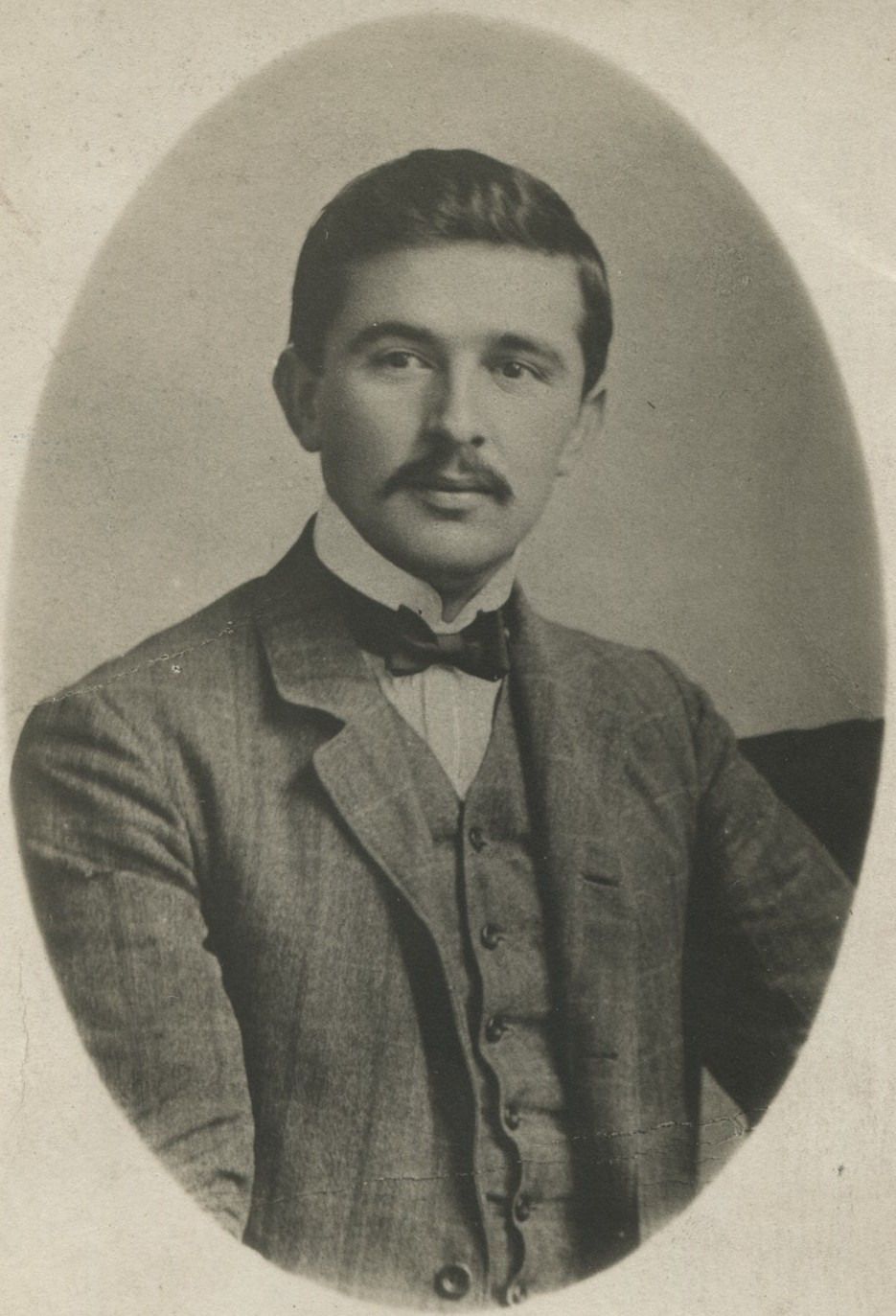 Veljko Cubrilovic